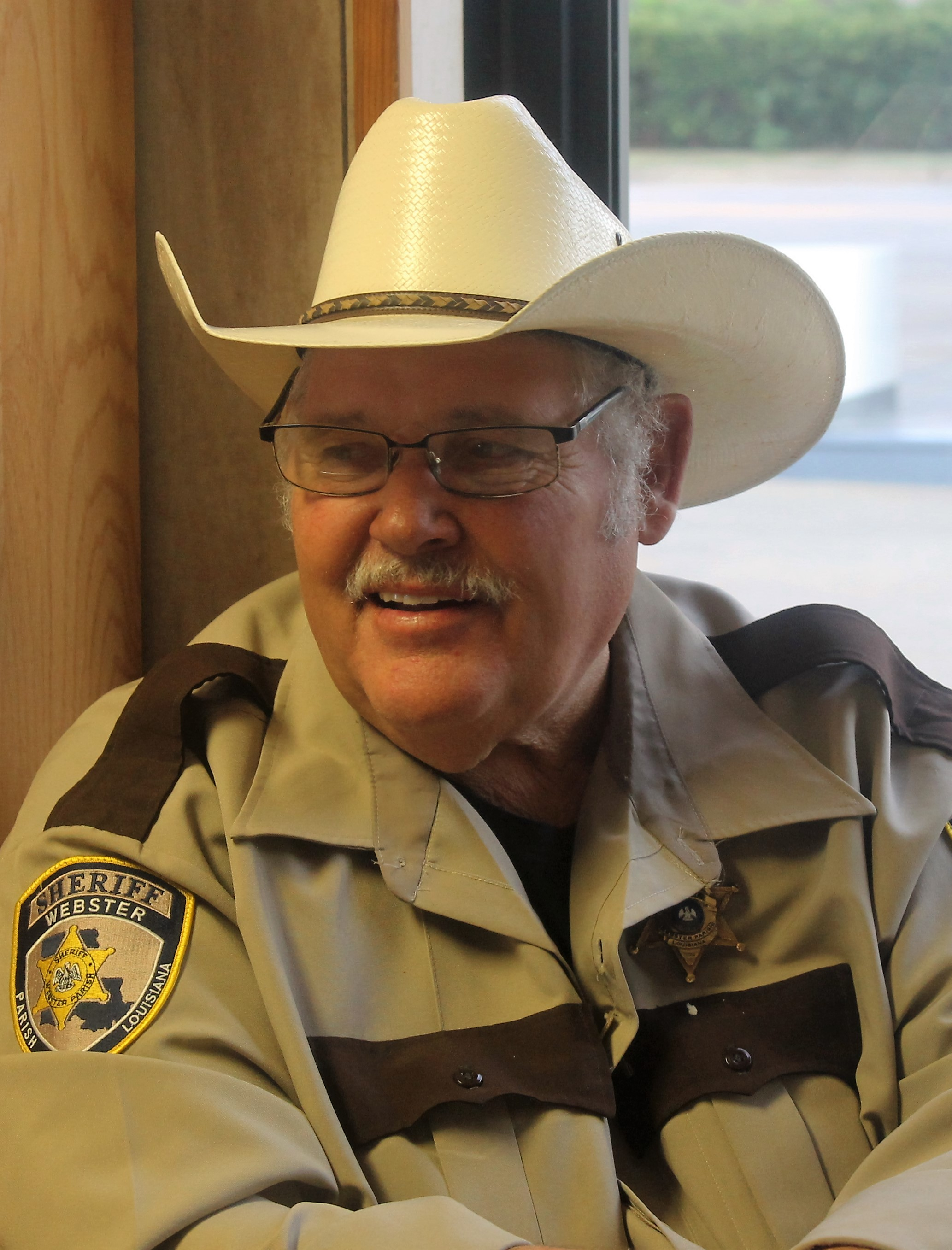 Sheriff's deputy Mickey Perryman of Dubberly, Louisiana